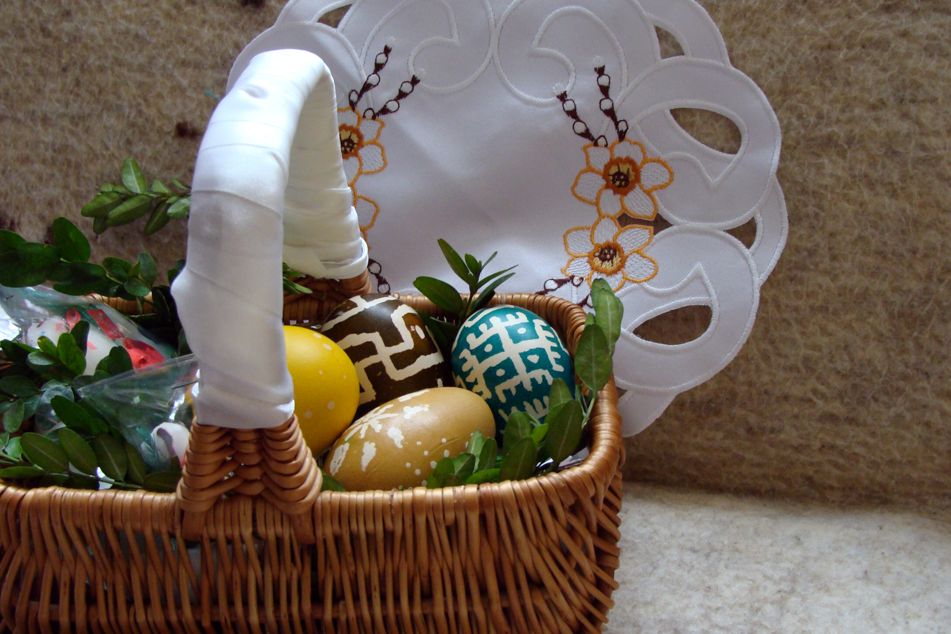 Easter egg (Jare Święto, 2009 RKP)